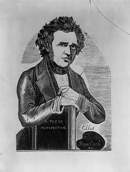 1 negative : glass, dry plate, b&w ; 21.5 x 16.5 cm.